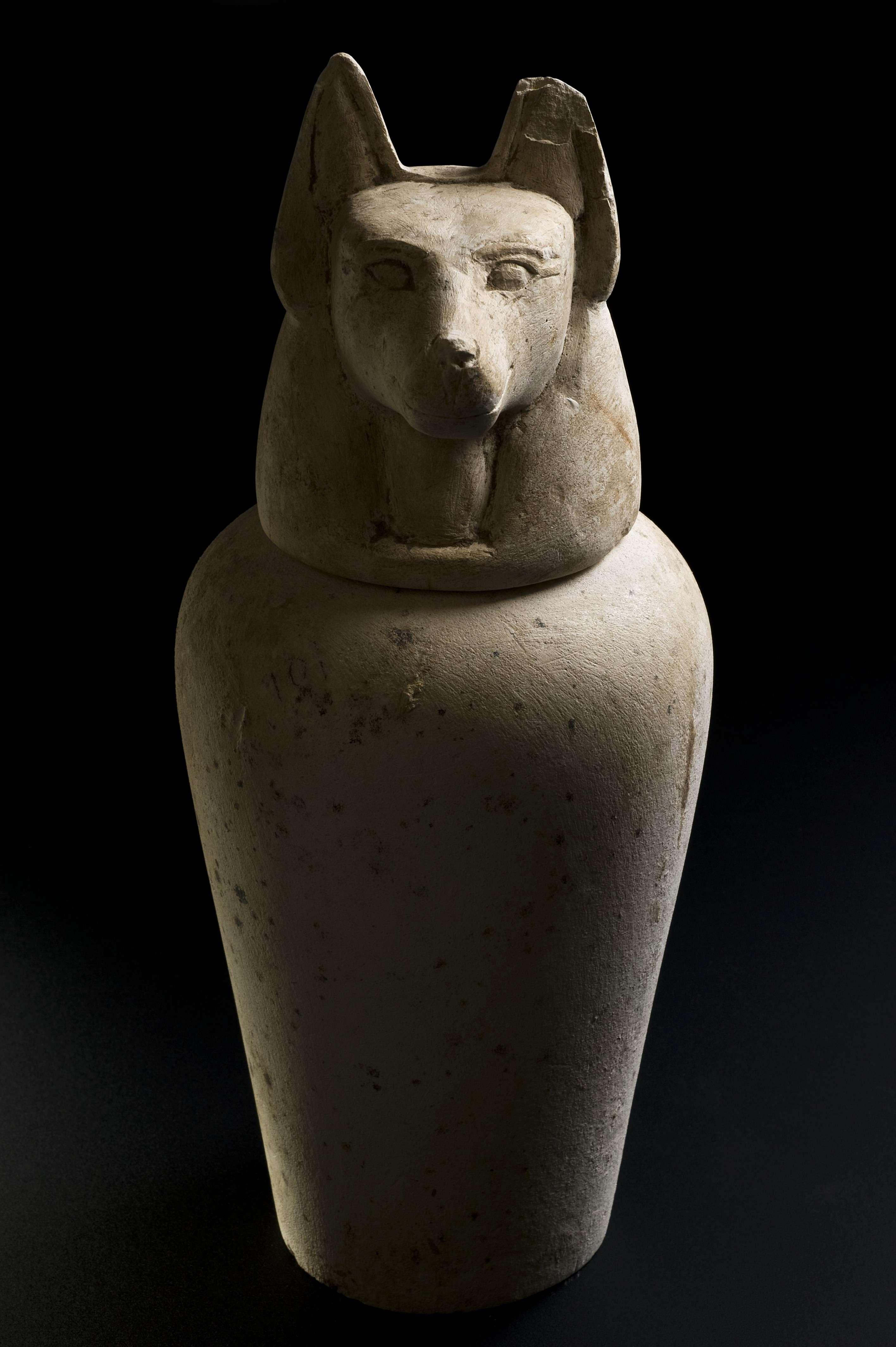 Limestone, jackal headed canopic jar, Egyptian, 2000BC to 100AD. Full view, straight on. Black background. Wellcome Images